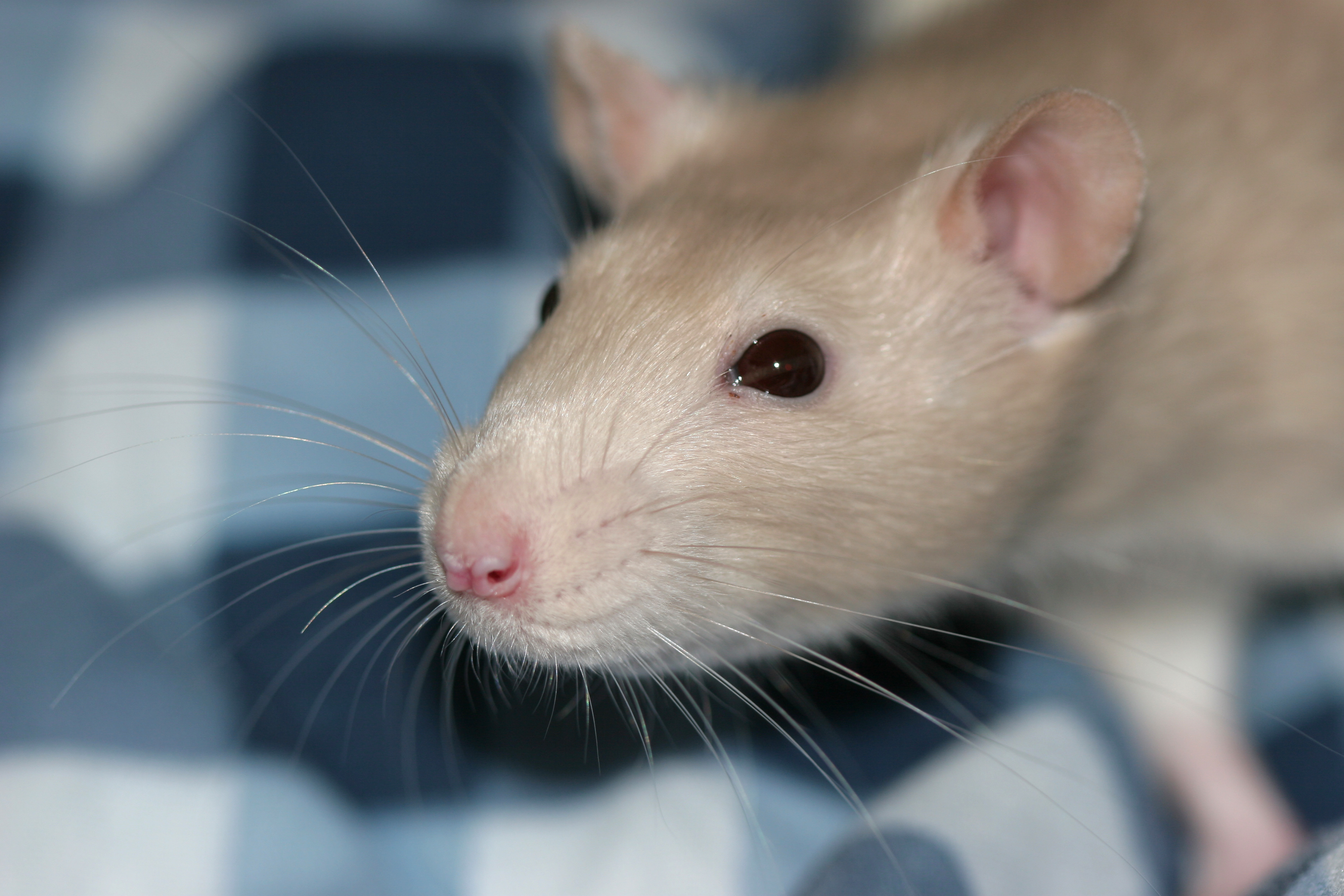 Pet rat named Albertina